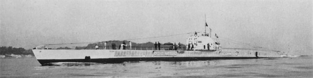 French Requin class submarine Morse (Q117). The conning tower bear the number S5 (Morse has the numbers S5, MR and 92).